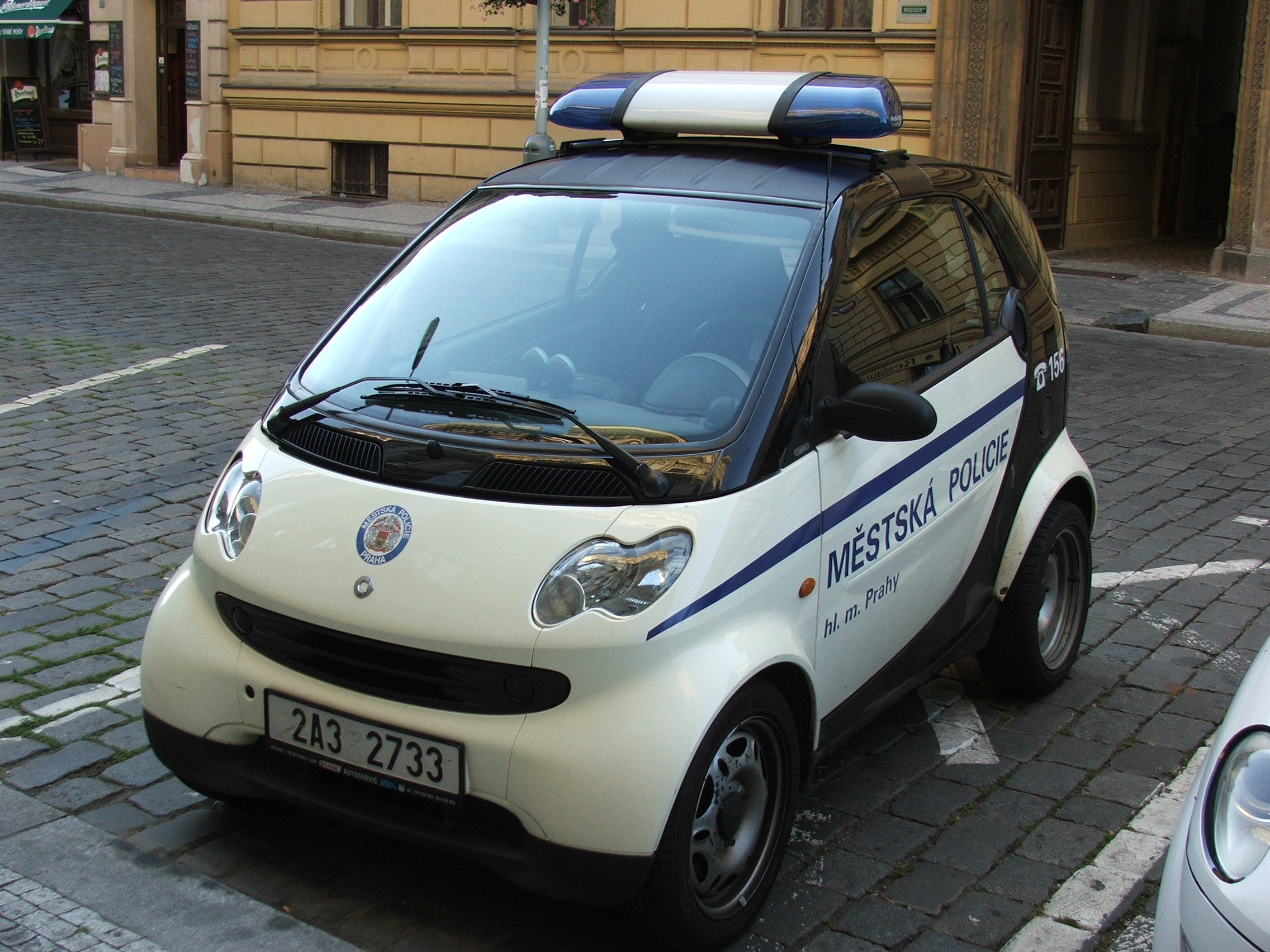 Smart(s) vehicles of Municipal Police of Prague, Czechia